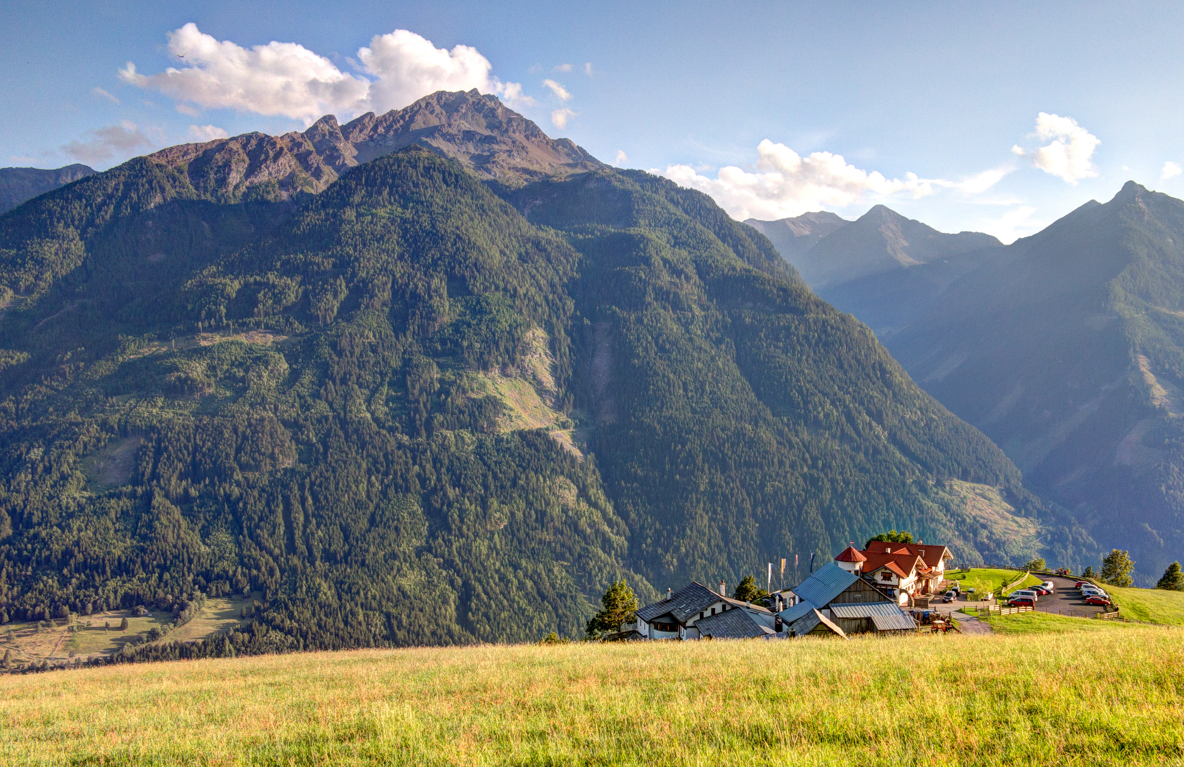 Himmelbauer, the Farm in the Sky in Oberwolliggen above Semslach near Obervellach in Carinthia / Austria / EU. Below the Mölltal at the height of Semslach / Söbriach. In the background the Polinik (2,784 m) and the Mittagspitz, mountains of Kreuzeckgruppe. The Himmelbauer to 1,281 m is situated about 600 m above the valley floor of the Moelltal valley. The farm is first mentioned in the land register of the county of Gorizia in 1299 as Schwaige. The Mountain Farm is now run as an inn. Views south to the Polinik.